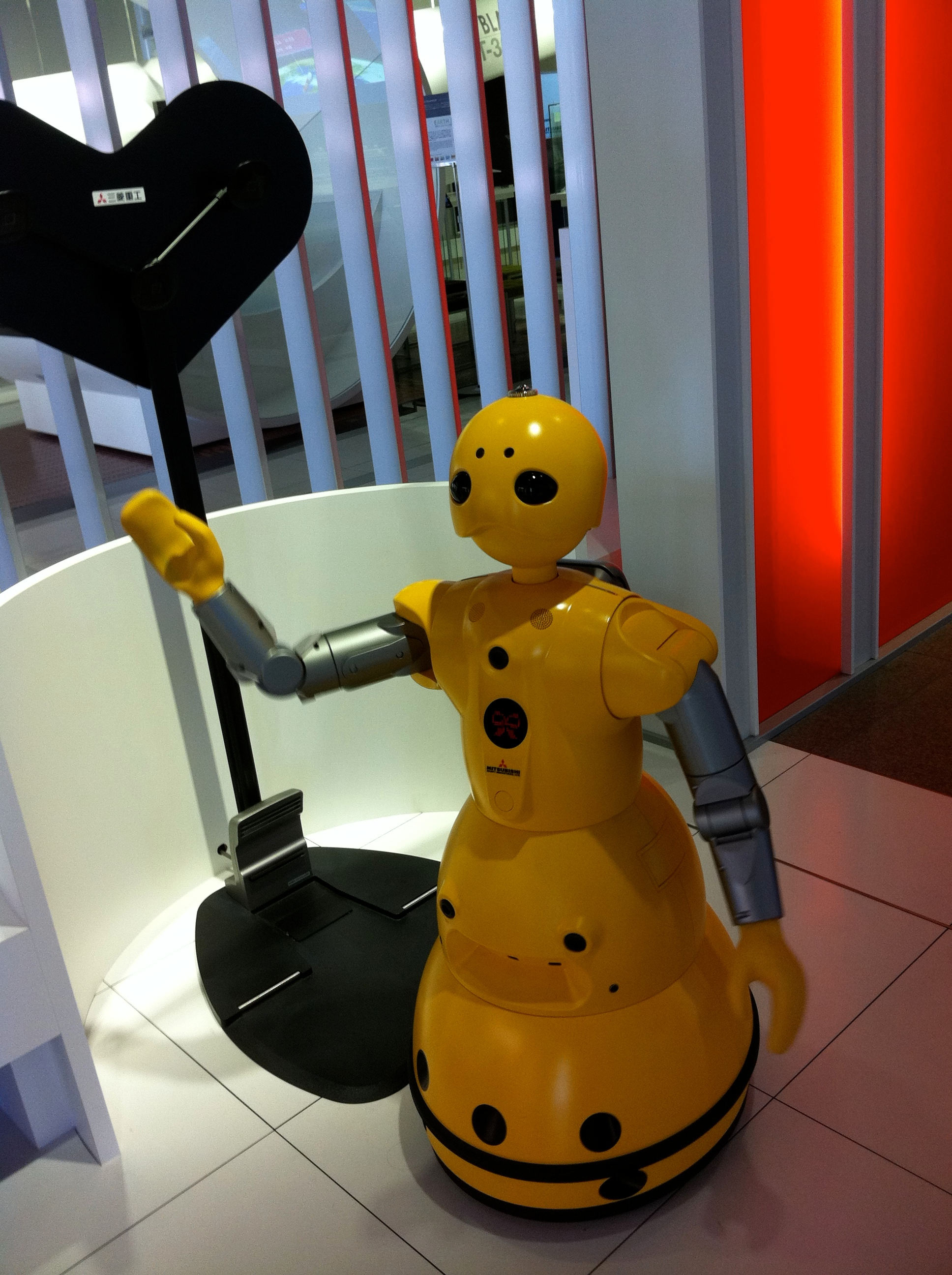 Wakamaru a domestic robot being showcased in Shinagawa.